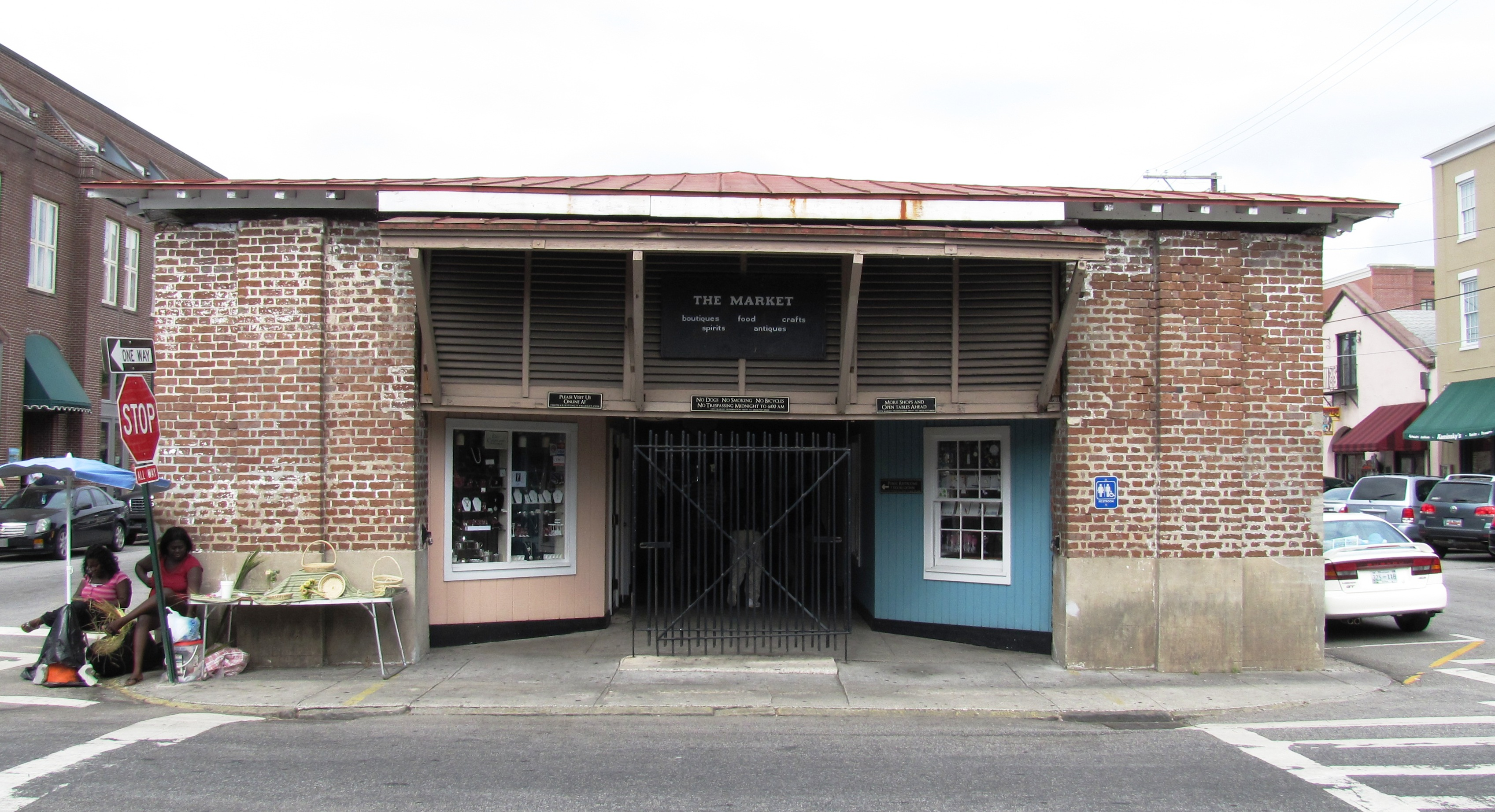 Old City Market shed entrance along Church Street in Charleston, South Carolina, USA, part of the NRHP-listed Market Hall and Sheds. The vendors on the left are selling Gullah sweetgrass baskets.